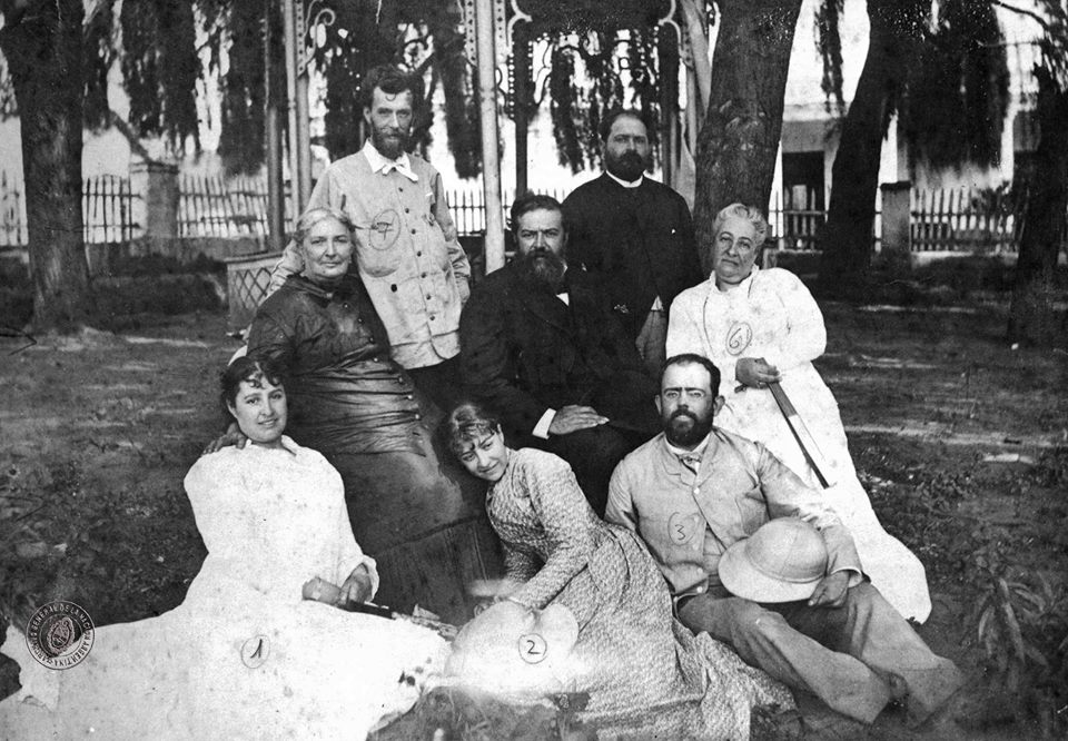 Argentine explorer and academic, Francisco Pascasio Moreno (seated, at bottom) with his wife and other relatives.